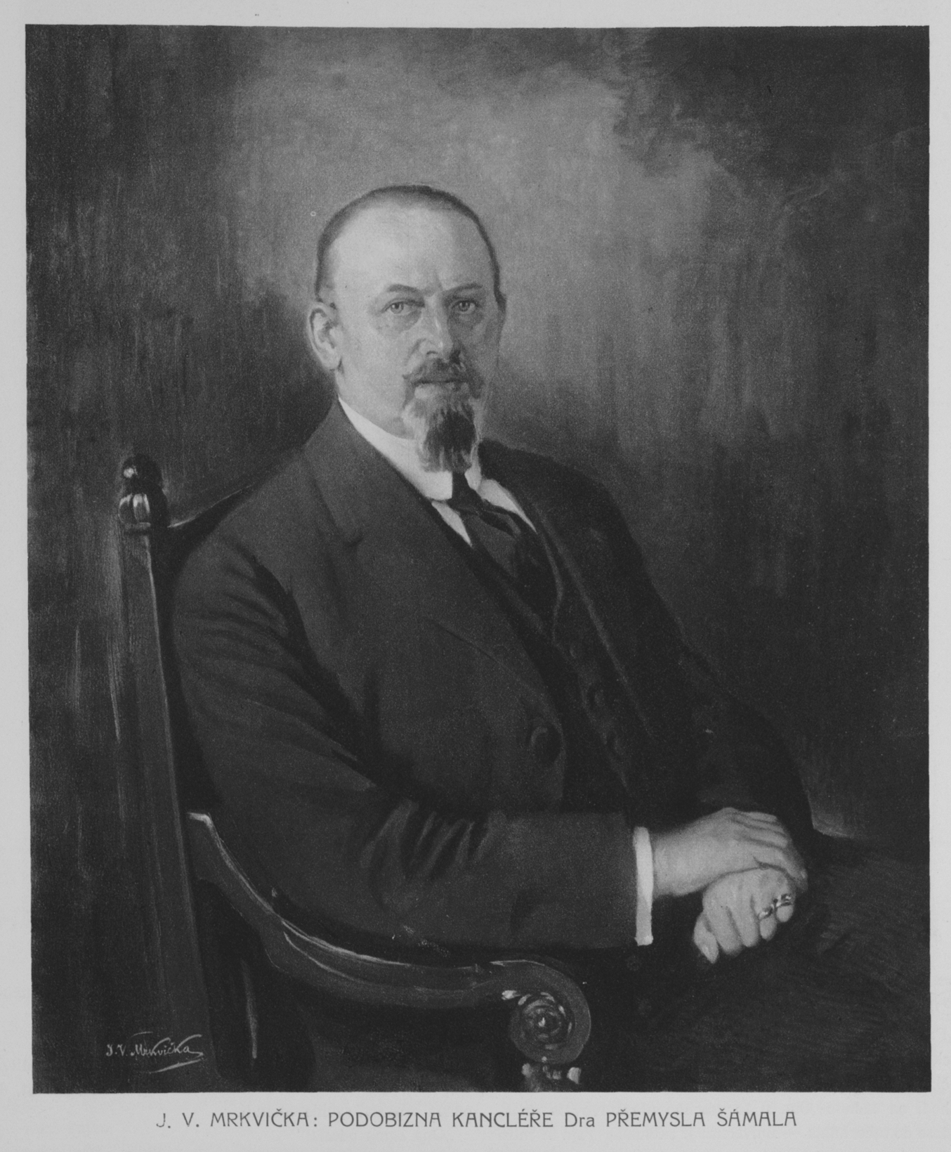 Portrait of Přemysl Šámal (1867-1941), Czech politician, victim of Nazism.